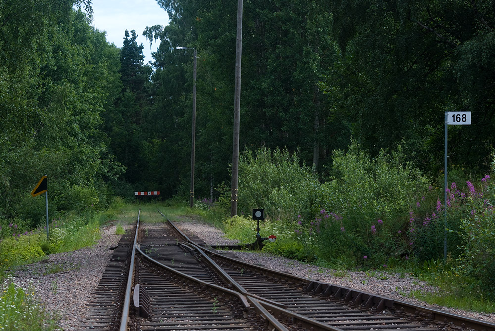 End of Heinola rail yard in Heinola, Finland